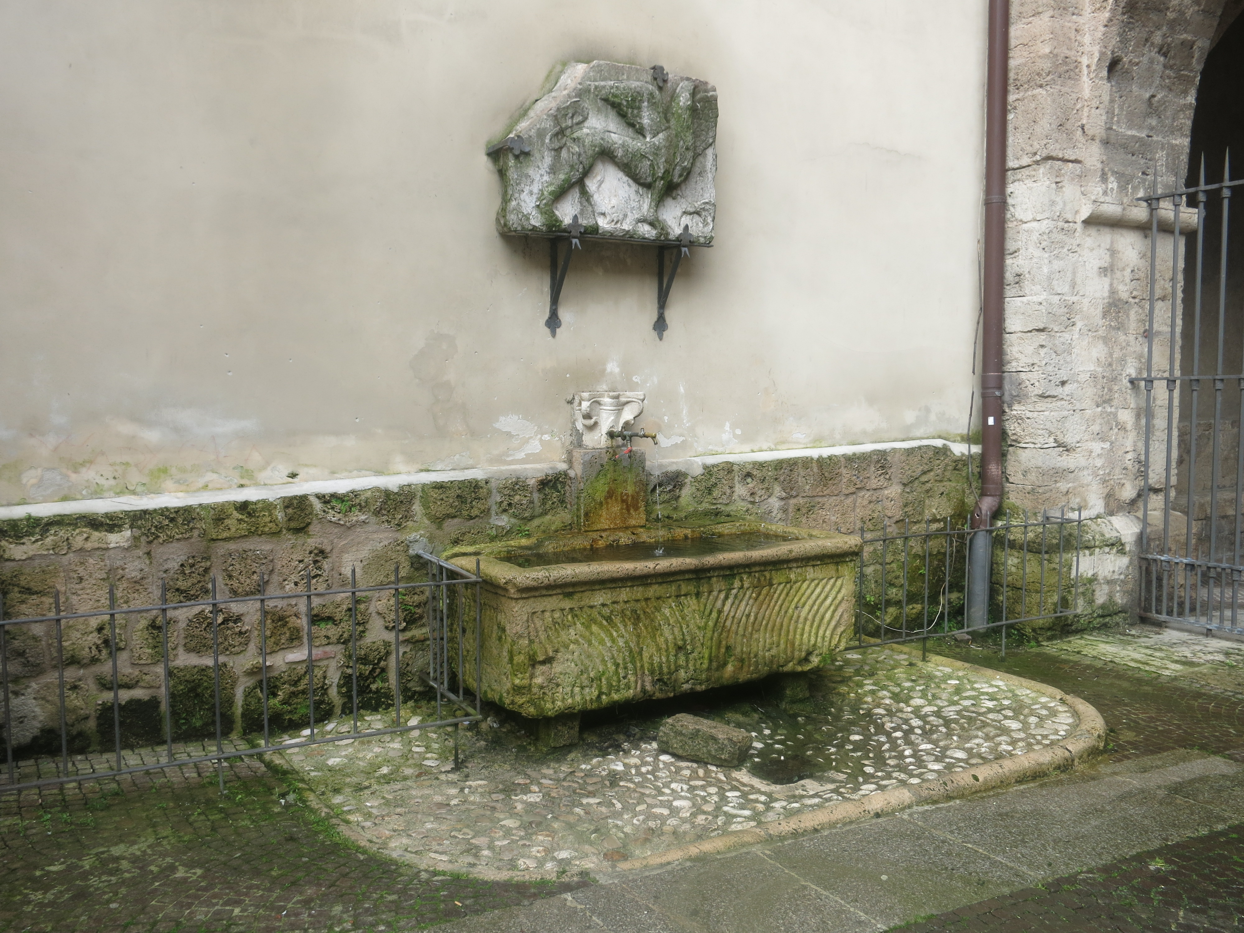 Fountain - Palazzo Vescovile (Rieti, Lazio, Italy)